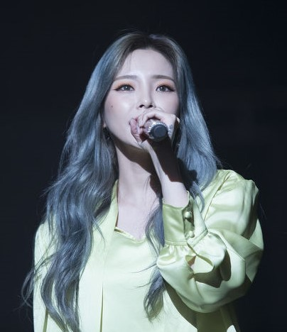 Heize at Zion.T X Heize Concert on April 21, 2018